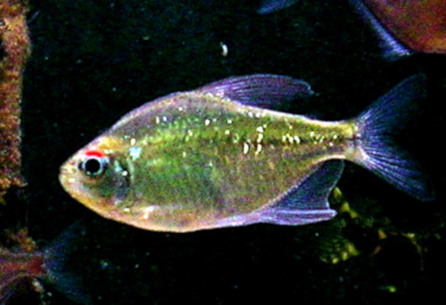 Adult diamon tetra (Moenkhausia pittieri), female, about 4 cm long. Aquarium specimen. Category:Characiformes images